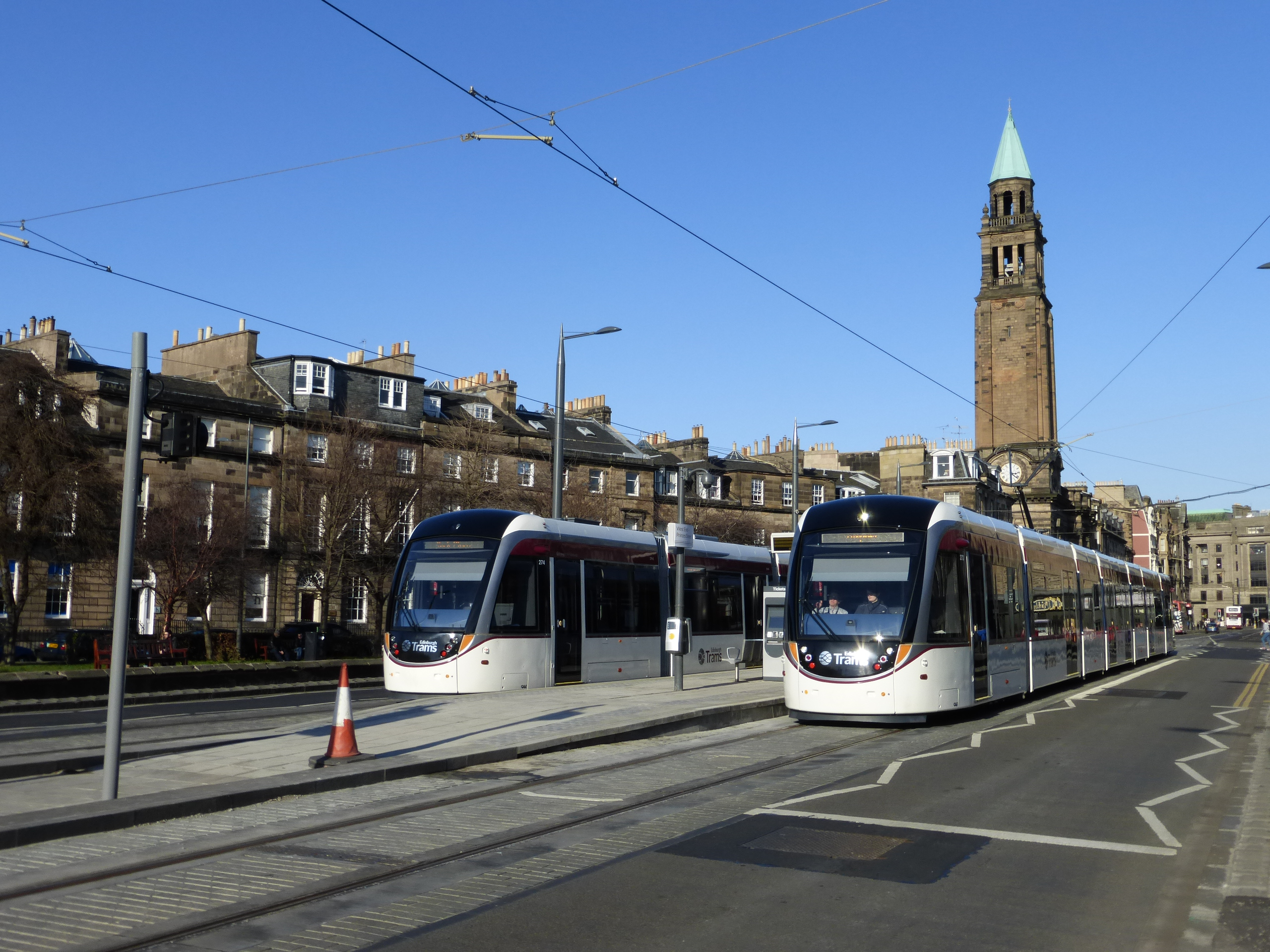 Two Edinburgh Trams seen at the West End - Princes Street stop in Shandwick Place (looking north east). At this stage the line was in the final few months of testing/training. The left hand track is for trams heading for the city centre, while the right hand one is for Airport bound services.